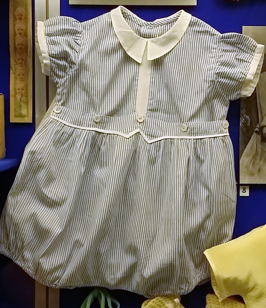 Romper suit for a baby. Striped cotton, c.1950s.